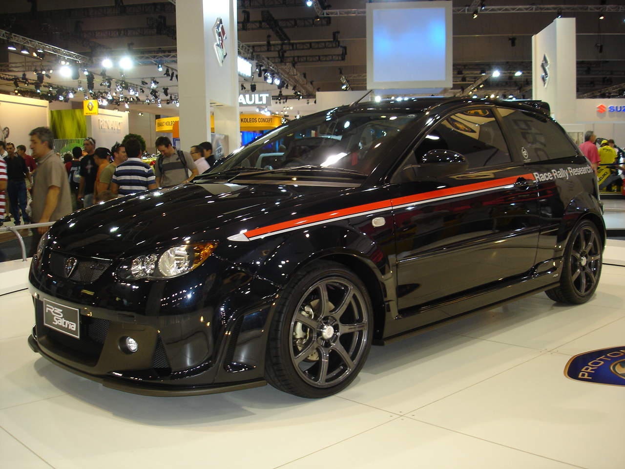 The 2008 model of Proton Satria R3 on display at the 2008 Melbourne Motorshow.